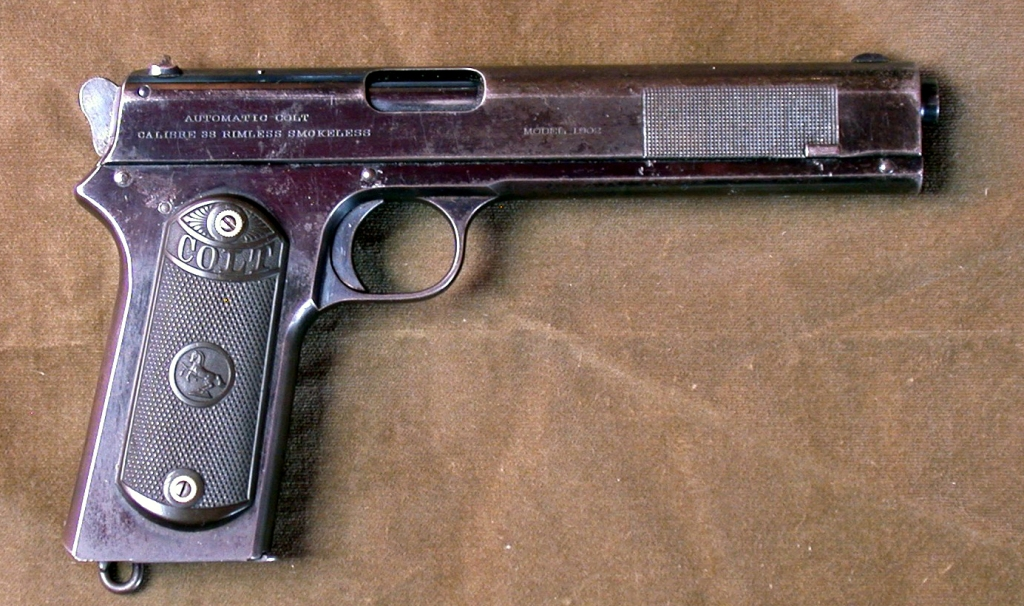 Colt Model 02 Military